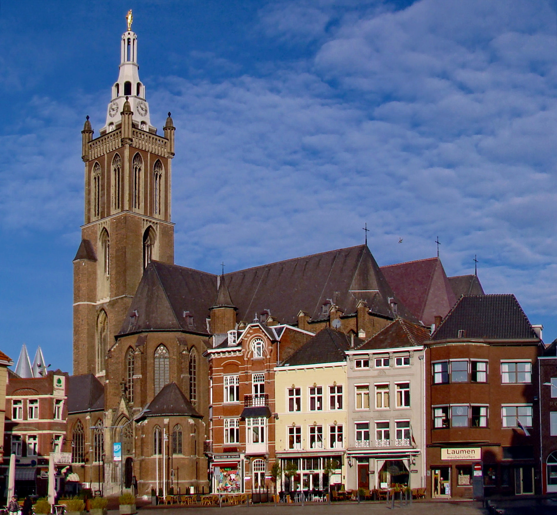 Panorama of Roermond, Netherlands Markt